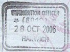 Passport stamp from Harwich International Port, UK.